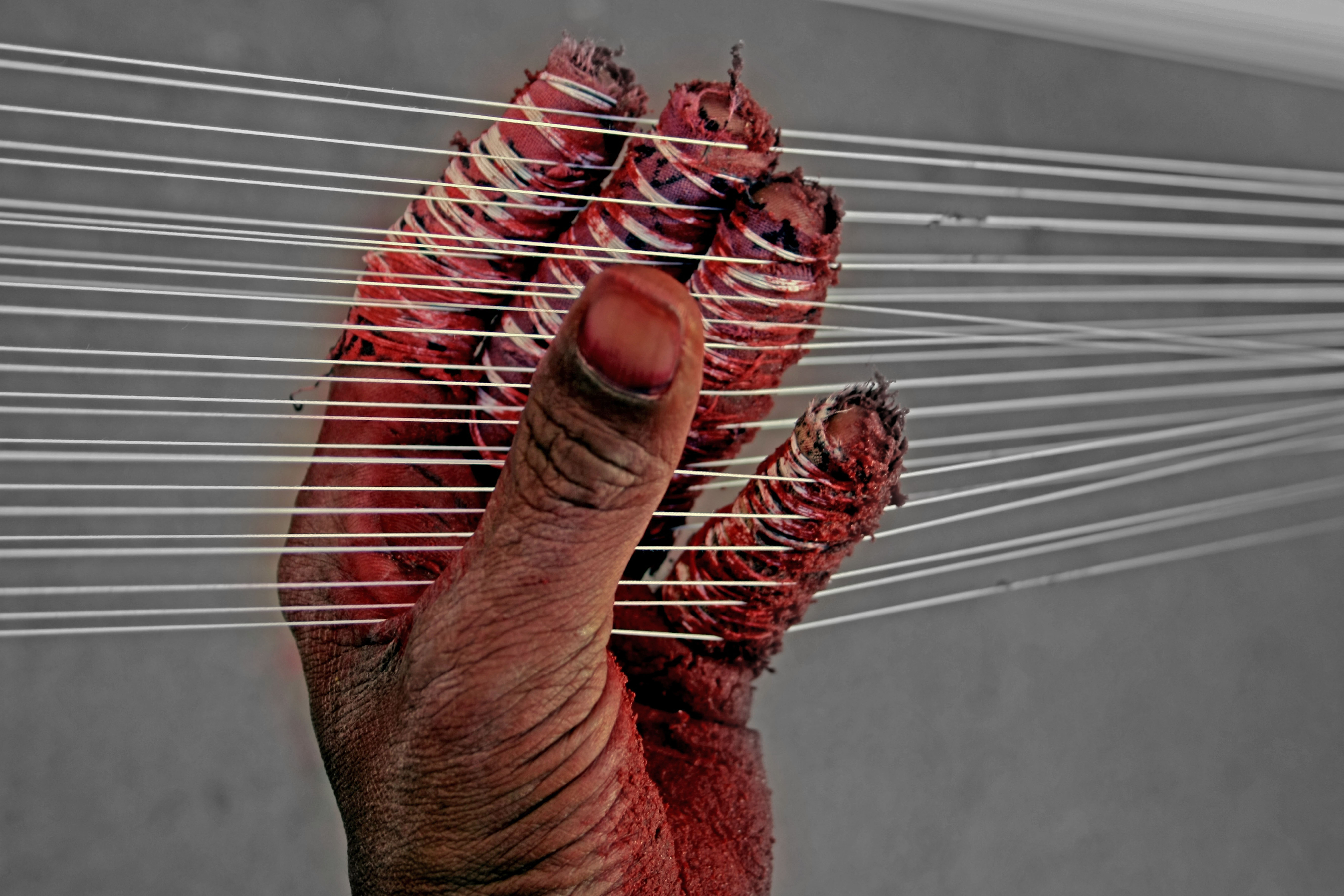 The maanja making is the process of coating a cotton thread with a mixture of glass powder, rice, colours, etc. This kills various birds and even humans.